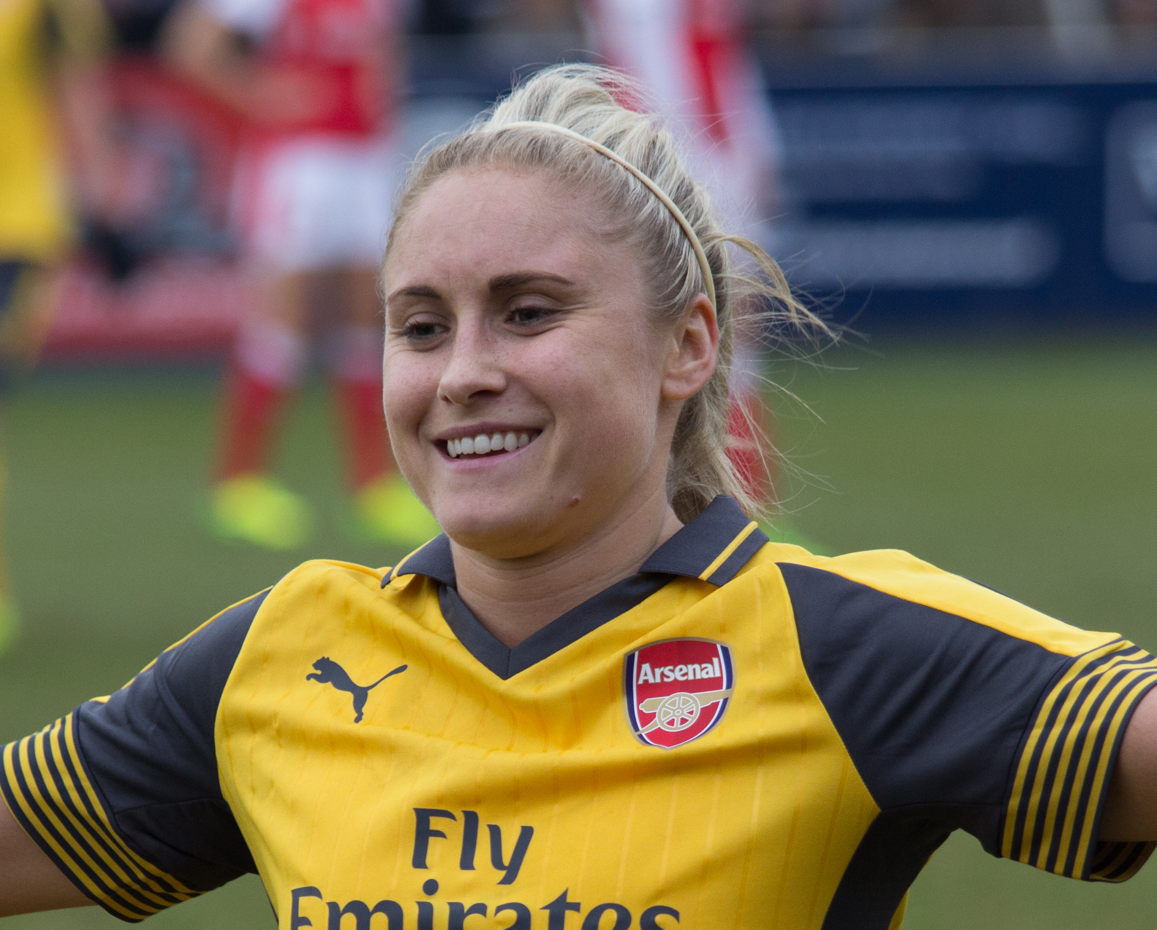 Arsenal LFC (Red) v Kelly Smith All-Stars XI (Yellow), 19 February 2017 – second half